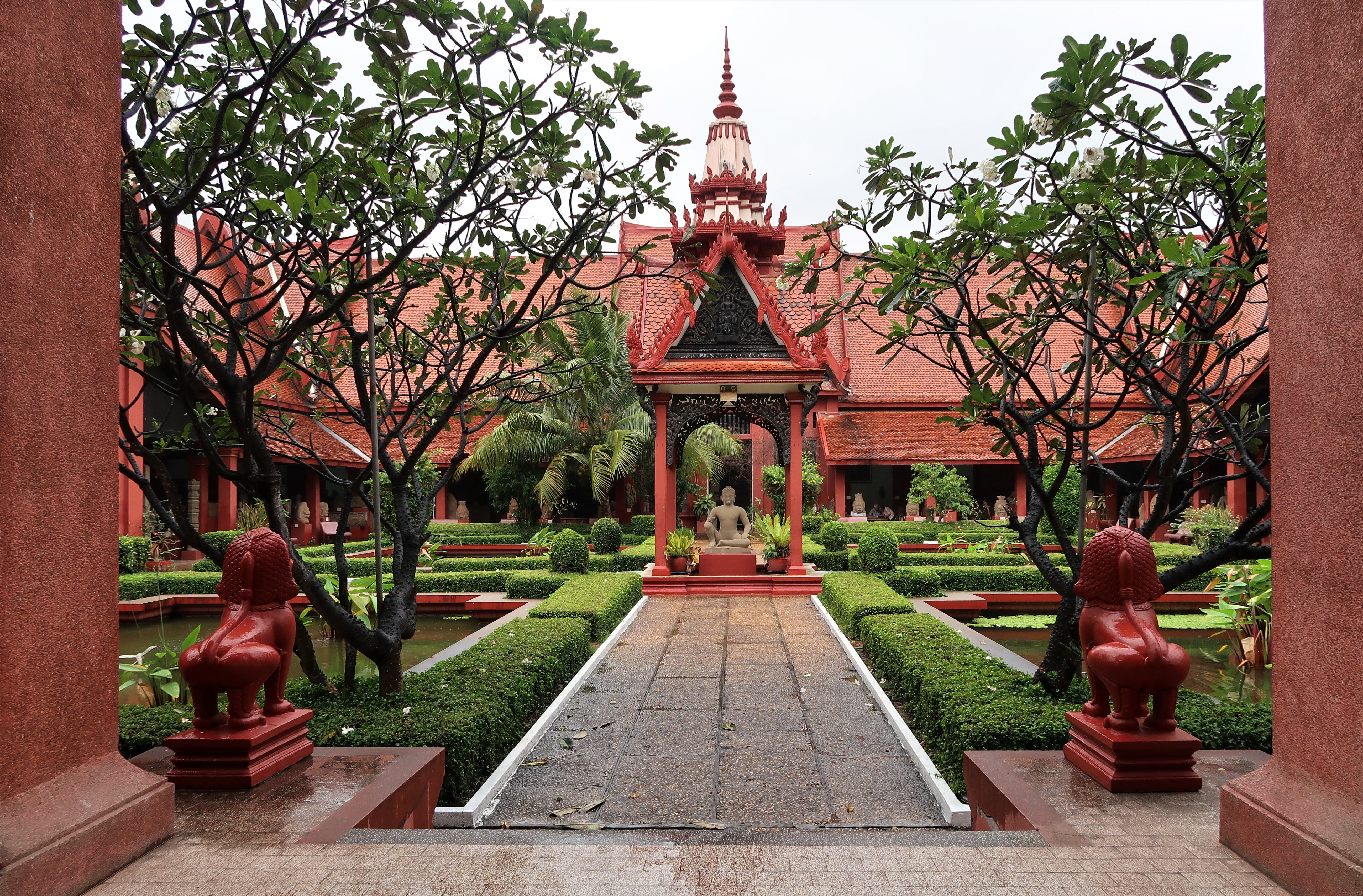 Courtyard of the National Museum of Cambodia in Phnom Penh.